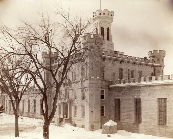 The exterior walls and gate to the Wisconsin State Prison.